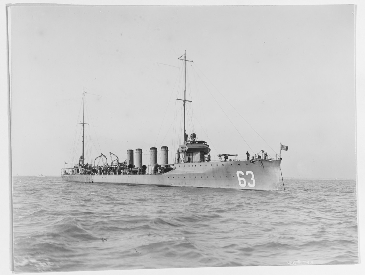 USS Sampson at anchor, Photo # NH 51829